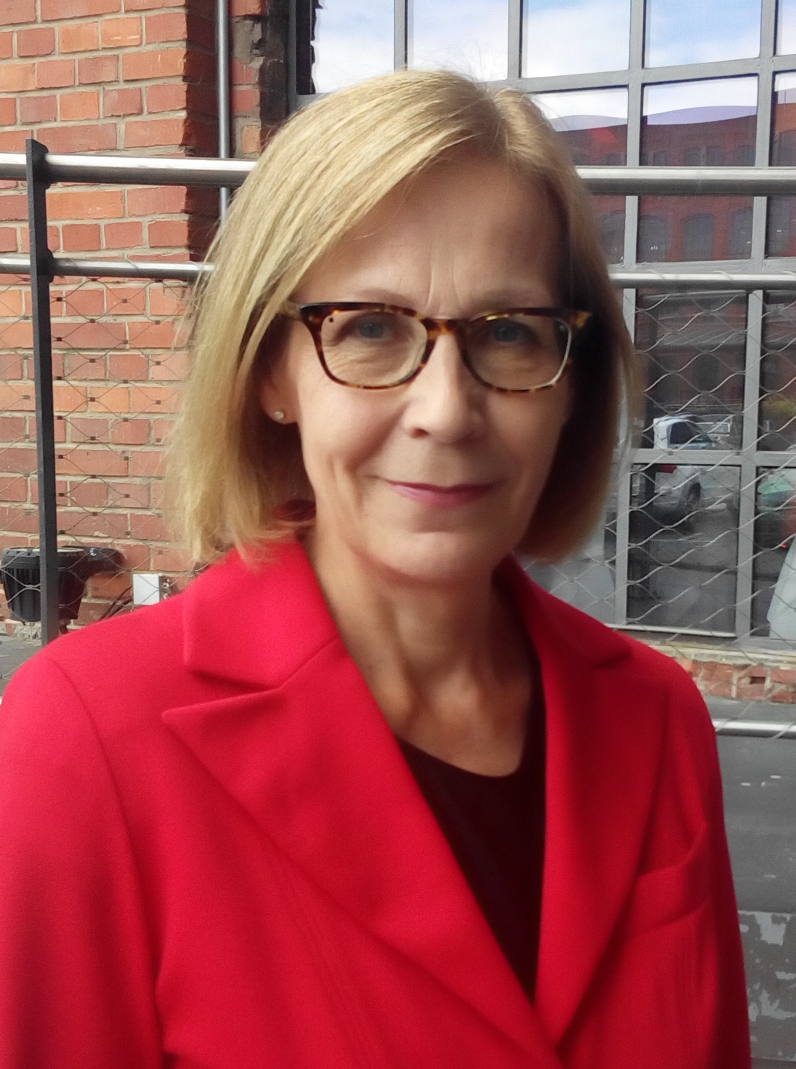 Finnish Ambassador in Germany Ritva Koukku-Ronde Koukku-Ronde